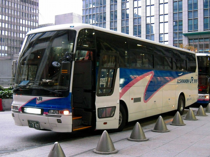 Nishinihon JR bus highwaybus "Tyoutokuwari seisyun Tokyo"(Tokyo-Osaka)Mitsubishi Fuso Aero Queen I (KC-MS822P)